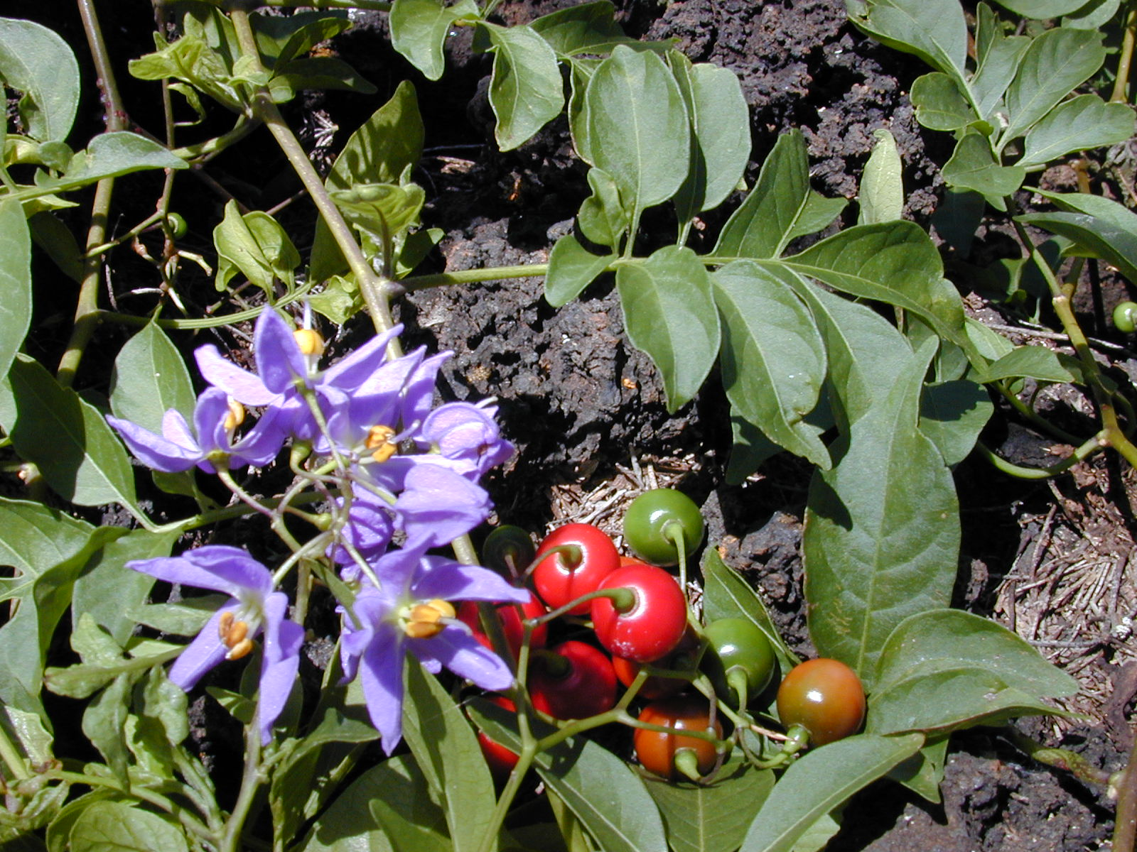 Solanum seaforthianum (flowers and fruit). Location: Maui, Puu o Kali